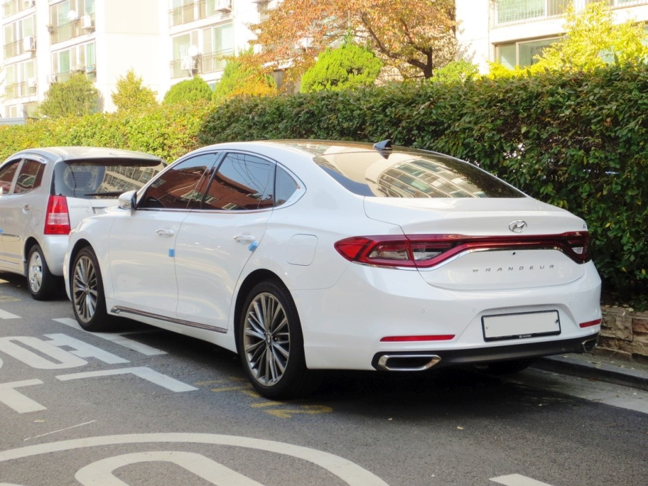 Hyundai Grandeur (IG)